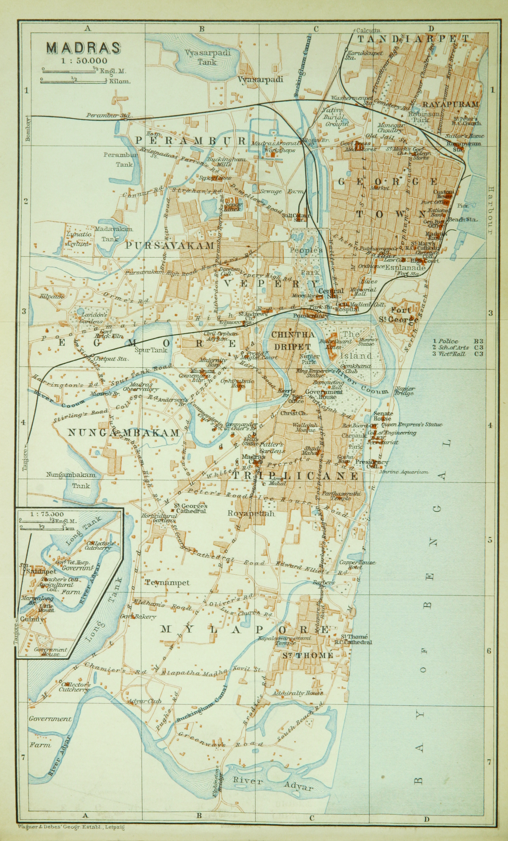 Map of the city of Madras, modern Chennai, ca 1914 (1:50,000). Labelled in English.